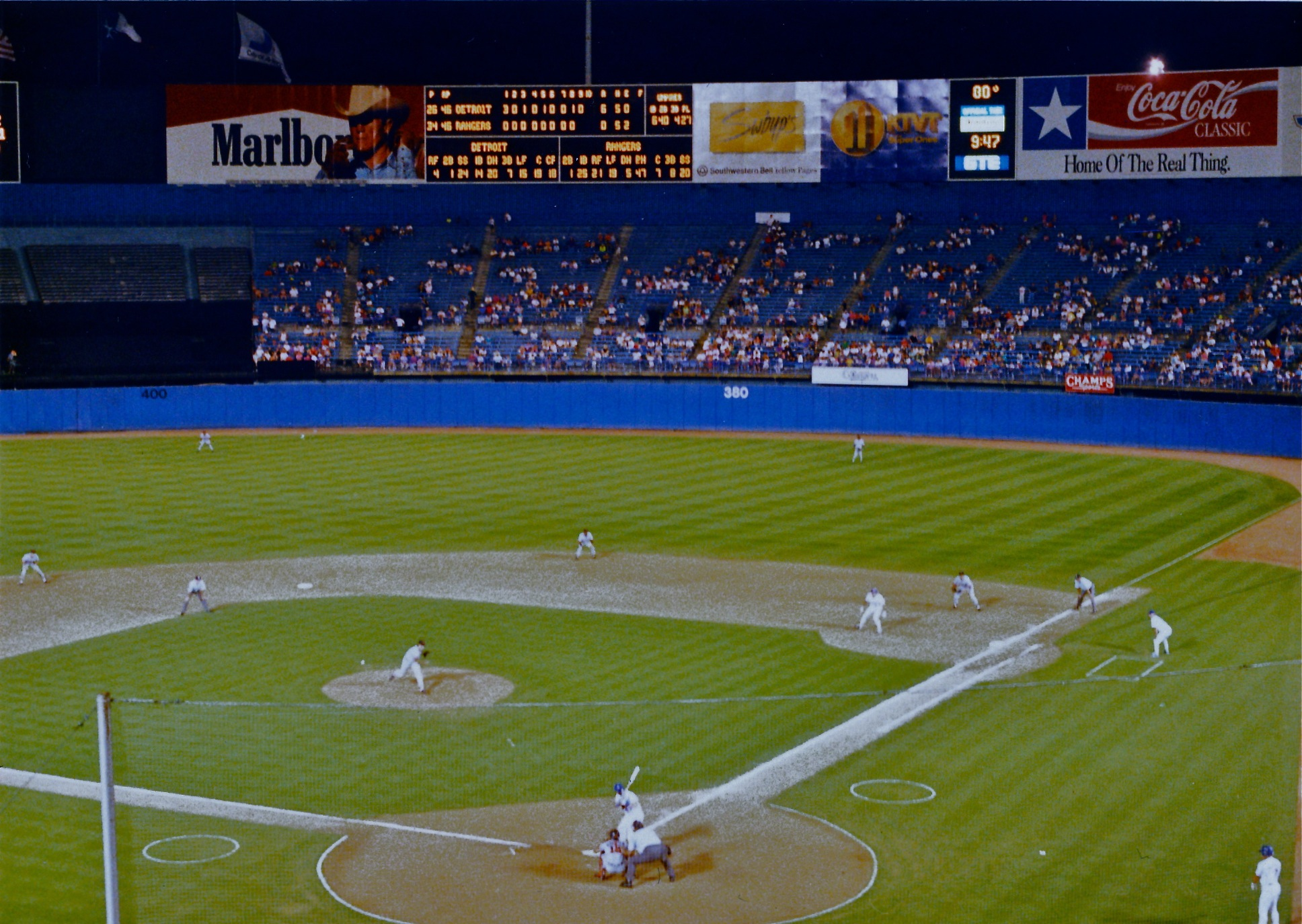 With a man on first, the Rangers are down to their last out. Final score: Tigers 6 - Rangers 0.